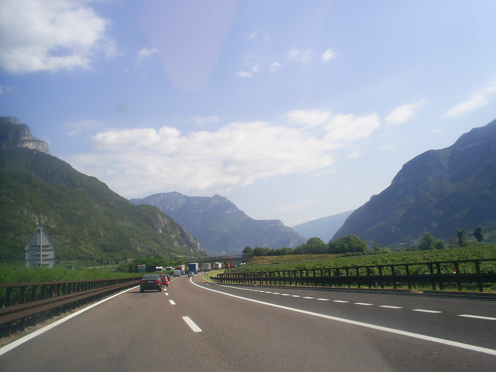 A22 highway in Italy, to the north of Verona